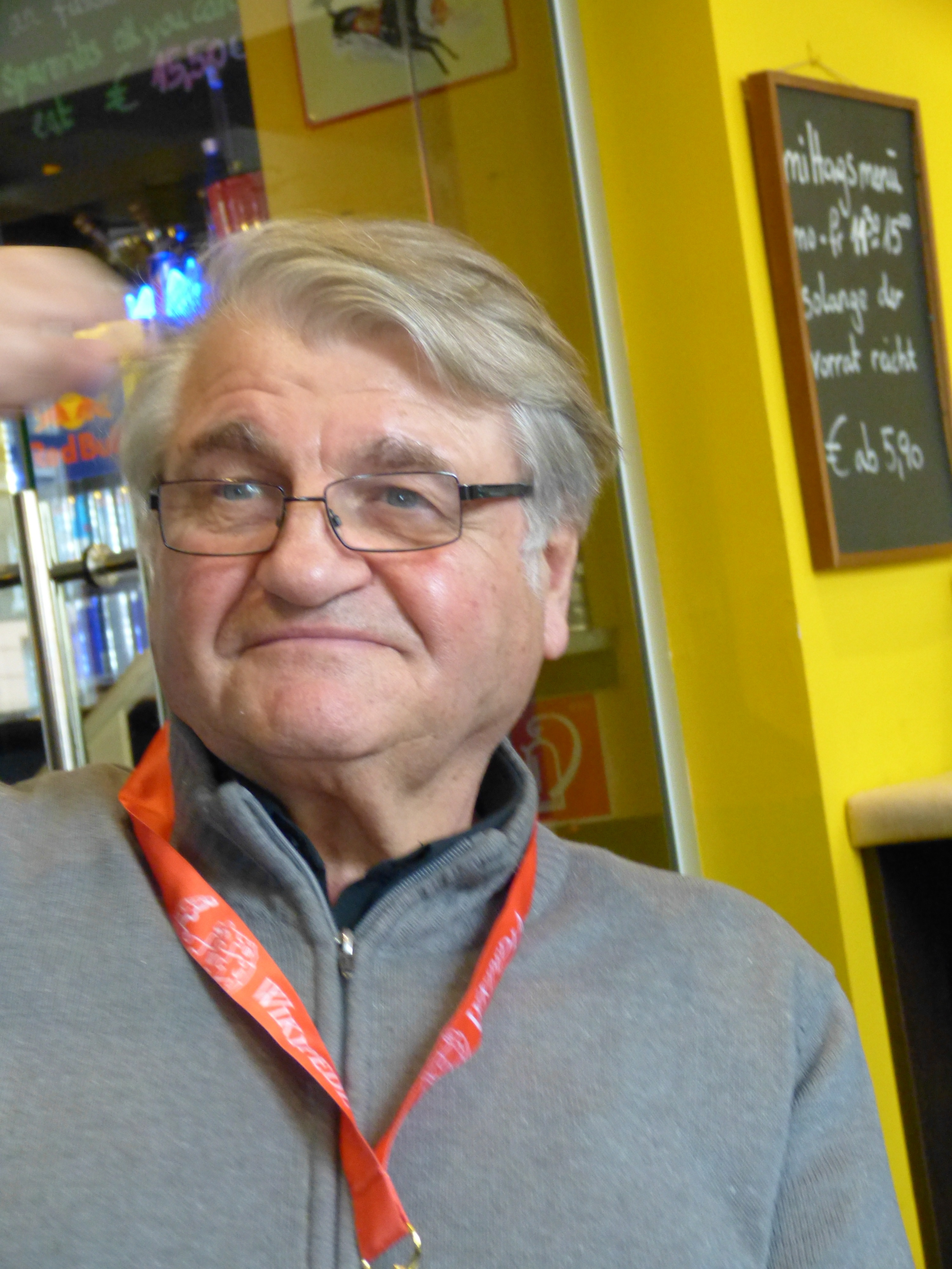 Wikipedia meeting in Vienna May 2013 - Peter Turrini.